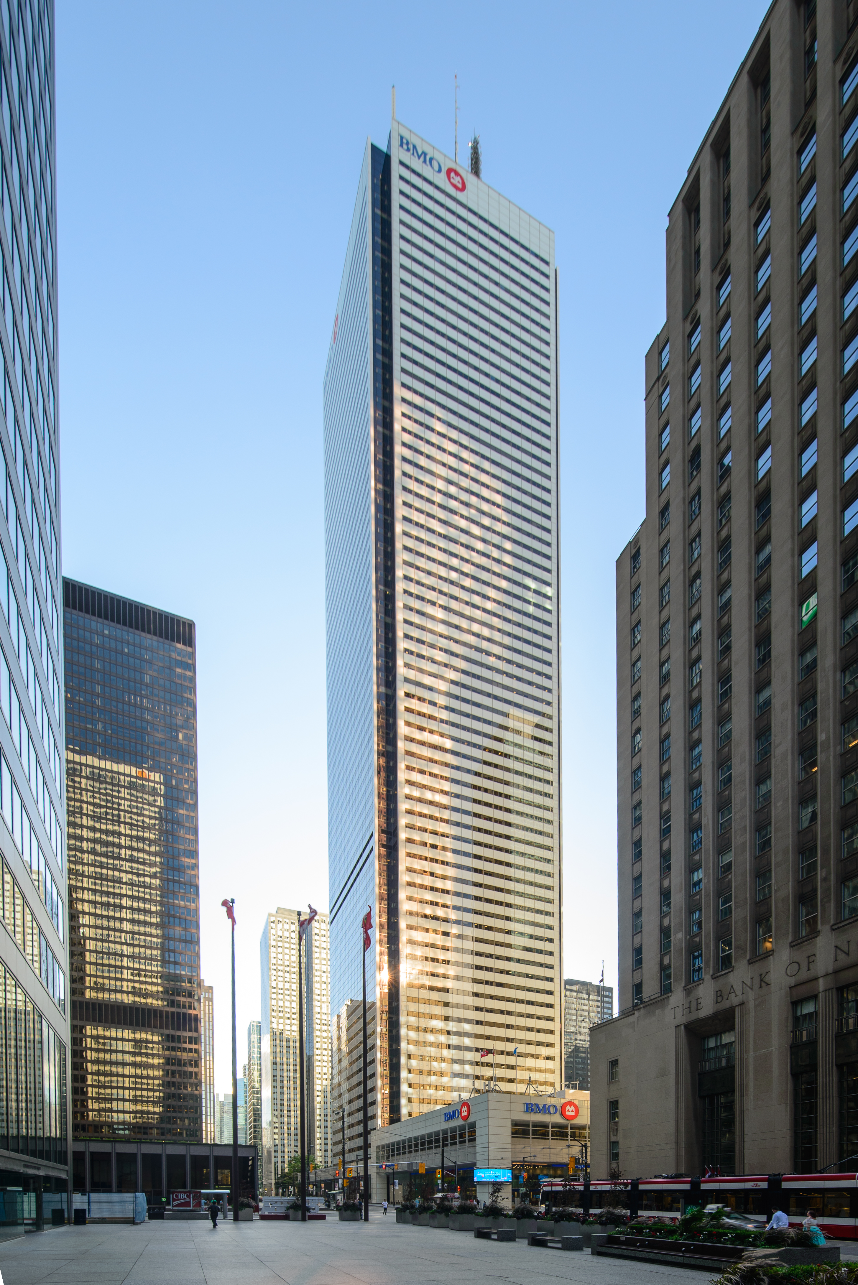 First Canadian Place, the highest building in Toronto and Canada.